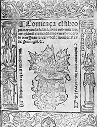 Cover of Juan Bermudo's "Declaración de instrumentos".